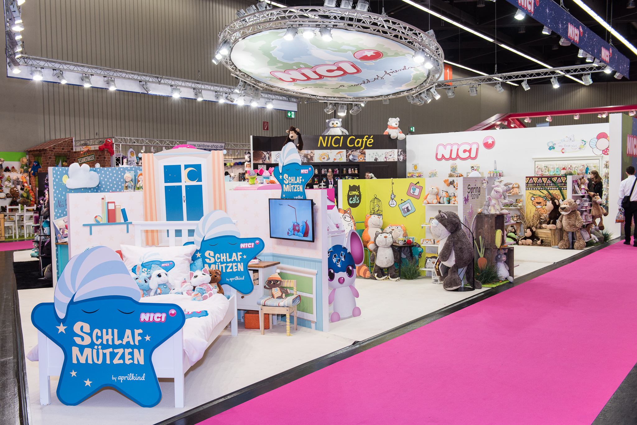 International Toy Fair Nürnberg,Messestand,NICI GmbH,Spielwarenmesse